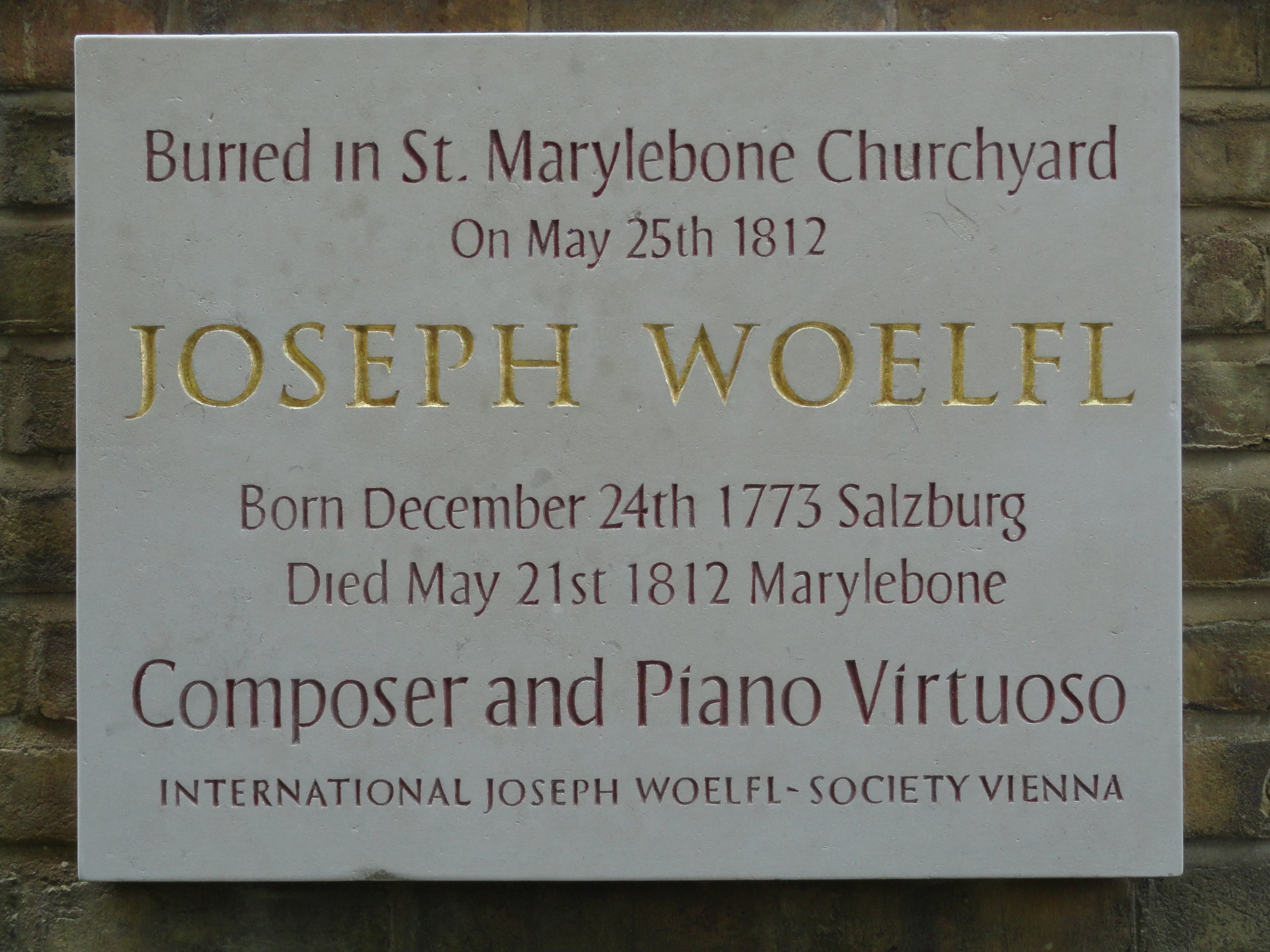 Gedenkstein fuer Woelfl 1812 (2012)